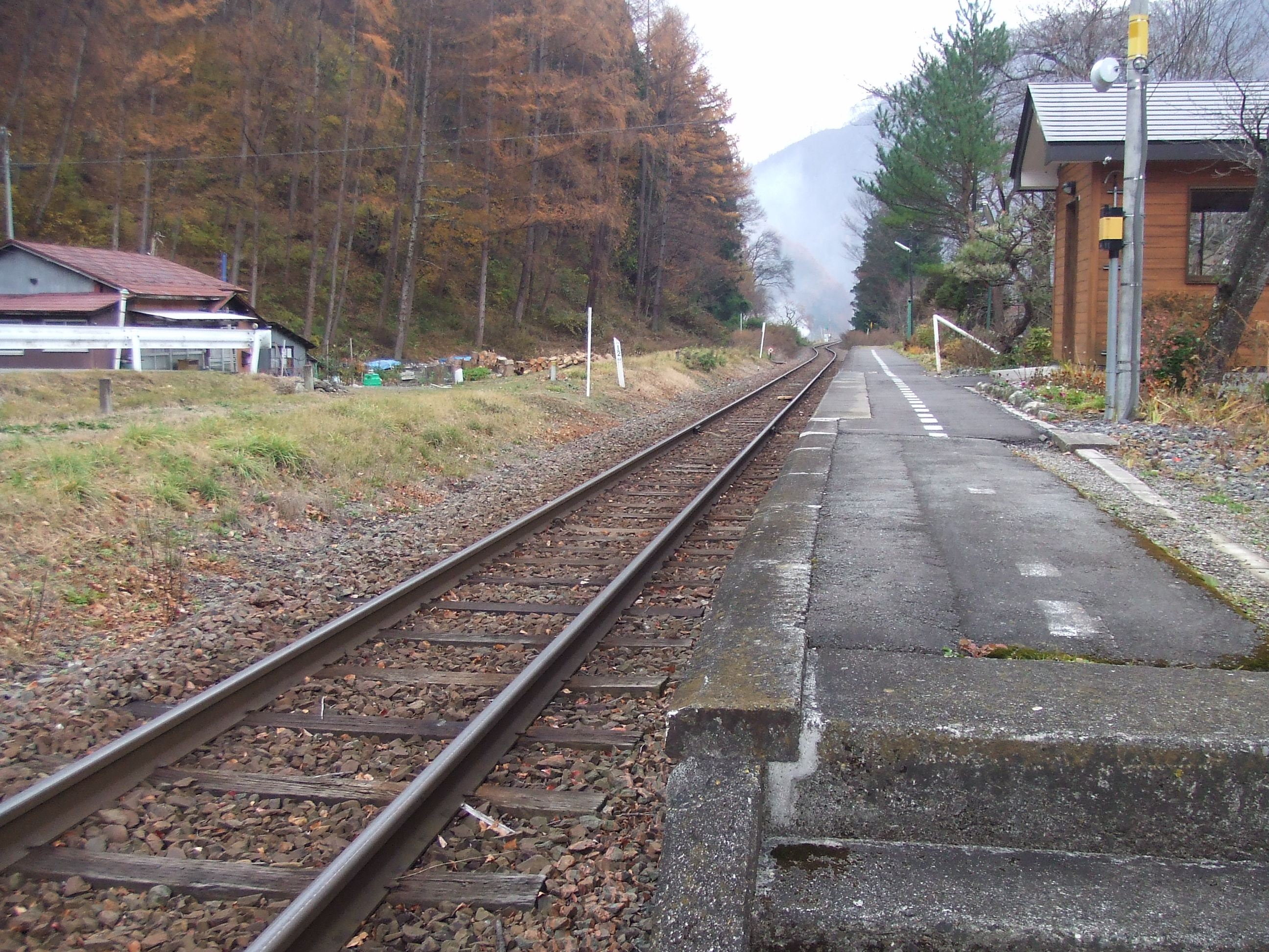 Hakoishi Station platform